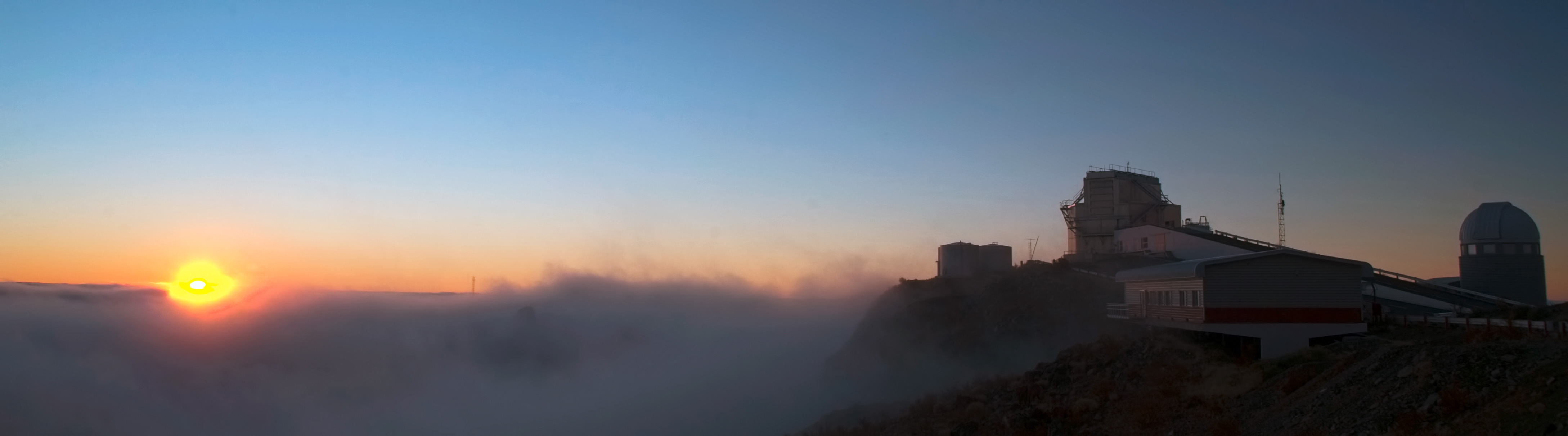 La Silla sits at the lowest height above sea level of all ESO’s observatories in Chile. At 2400 metres, it is around 200 metres lower than Paranal and sits at half the altitude of ALMA, which resides on top of Chajnantor at an ear-popping 5000 metres above sea level. Despite being the lowest observatory in terms of elevation, scientists at La Silla are still reminded of the extreme altitude when they step outside and see spectacles like this one — clouds just beneath their feet! As La Silla is in the Southern outskirts of the Atacama Desert, one of the driest places on Earth, it may come as a surprise to see cloud formations in the region, but this arid climate is the result of the Peruvian Humboldt Current. This current is caused by the upward movement of cold water from the depths of the nearby Pacific Ocean, and flows north along the west coast of South America. It is actually responsible for the aridity of the Atacama Desert — this cold water coming to the surface of the ocean causes cold air at sea level, but warm air at higher altitudes. On rare occasions this effect also produces misty fog and clouds, but without rain. This was not a problem on this occasion though as the clouds vanished shortly after this image was taken and a clear night of observations took place. This dream like image of the La Silla sunset was taken by ESO Photo Ambassador Alexandre Santerne.